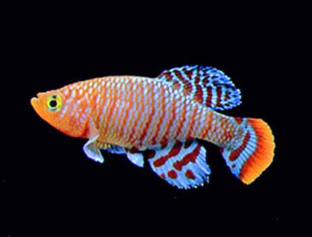 Nothobranchius rachovii, Ahl 1926, adult male. Contrasts enhanced and background digitally removed by the photographer – picture otherwise closely resembling the actual fish. See also: Nothobranchius (enwiki).